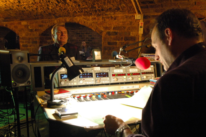 Musicians